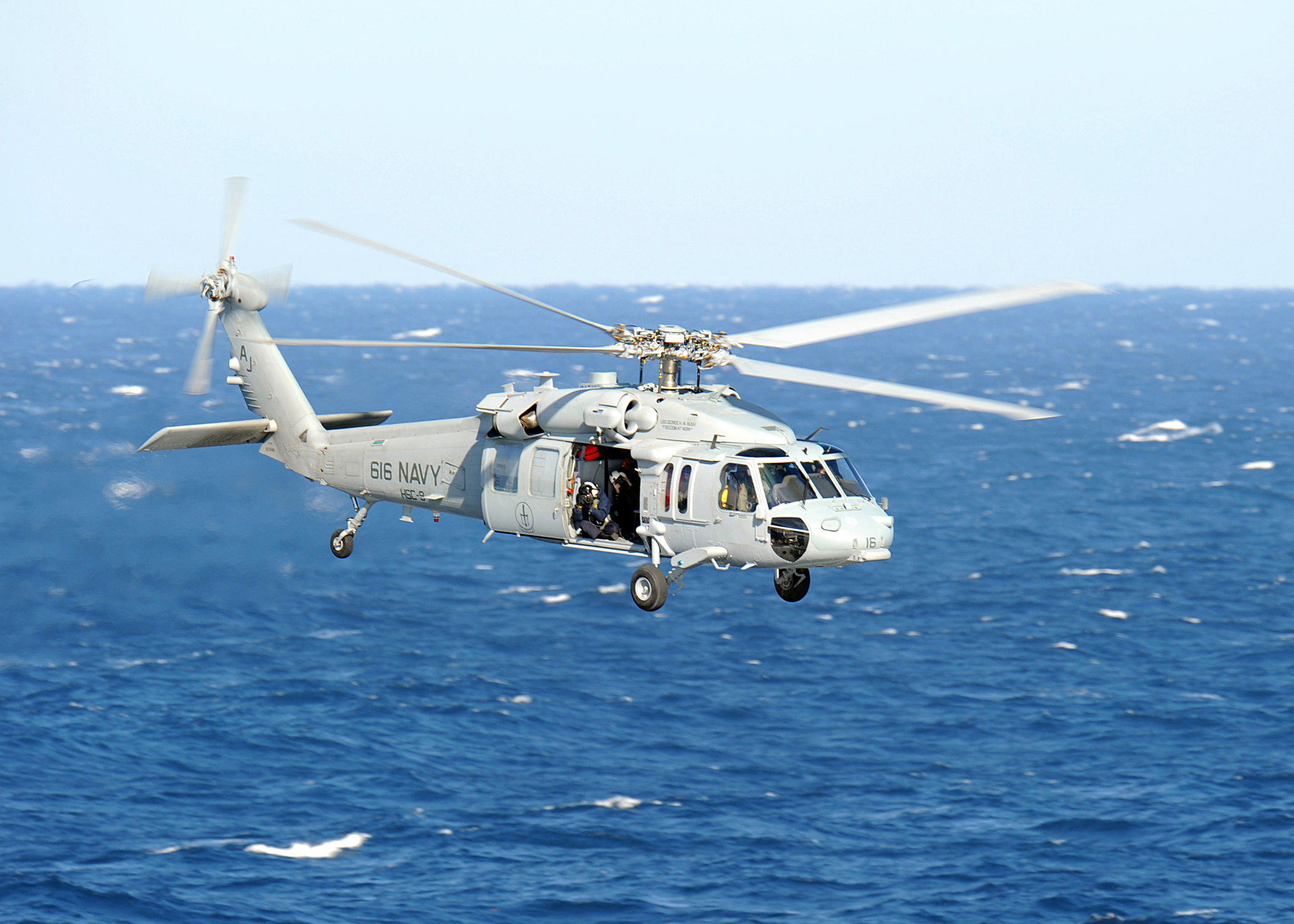 ATLANTIC OCEAN (Feb. 27, 2010) An MH-60S Sea Hawk helicopter from the Eightballers of Helicopter Sea Combat Squadron (HSC) 9 flies during flight operations aboard the aircraft carrier USS George H.W. Bush (CVN 77). George H.W. Bush, the Navy's 10th and final Nimitz-class aircraft carrier, is underway supporting fleet training operations. (U.S. Navy photo by Mass Communication Specialist 3rd Class Nicholas Hall/Released)